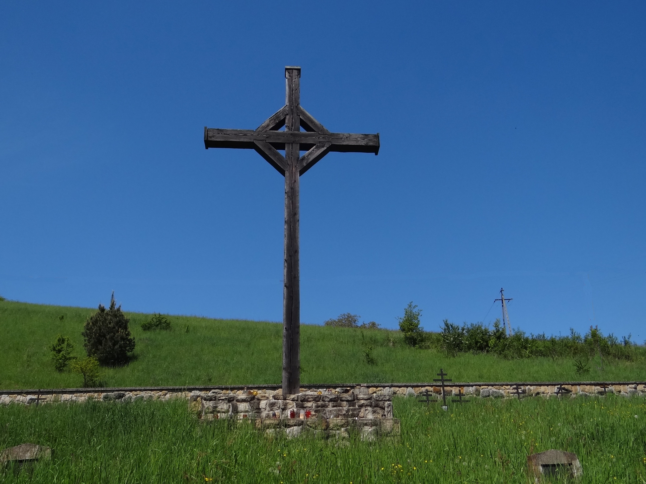 World War I Cemetery nr 143 in Ostrusza